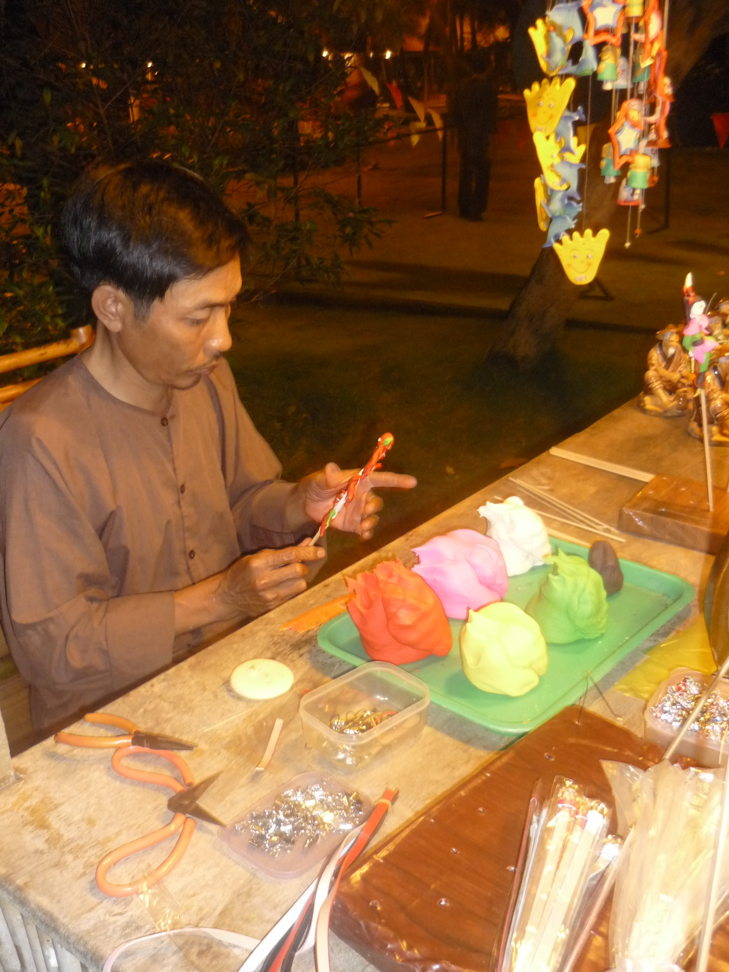 A "tò he" maker is making a "tò he"